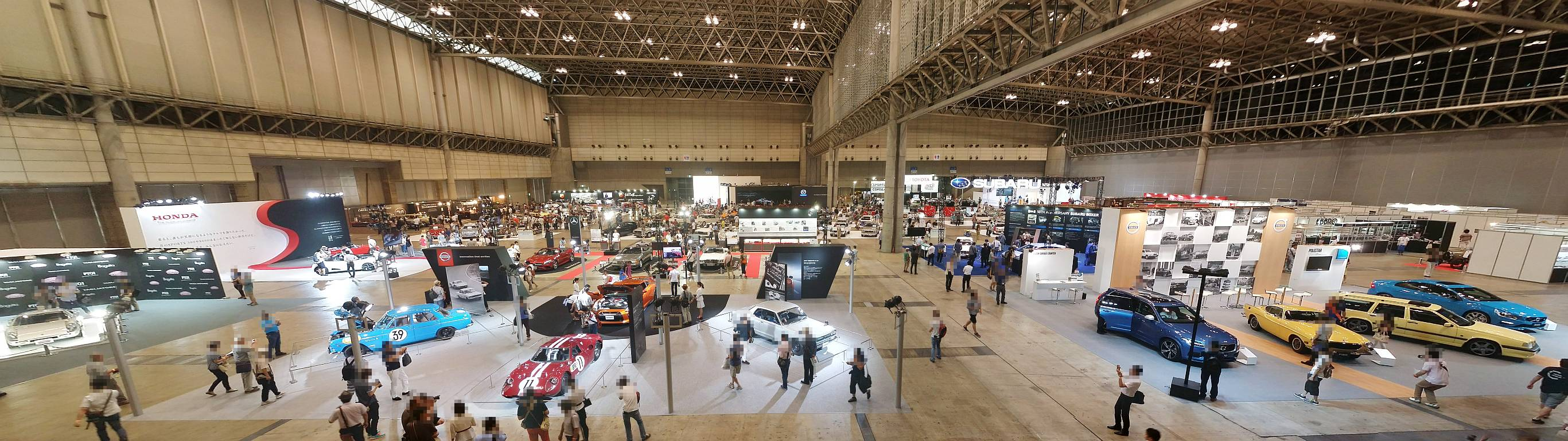 Automobile Council 2016.